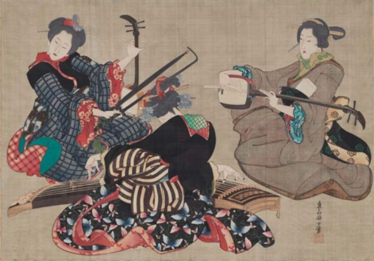 A woodblock by Katsushika Oi, Katsushika Hokisai's youngest daughter